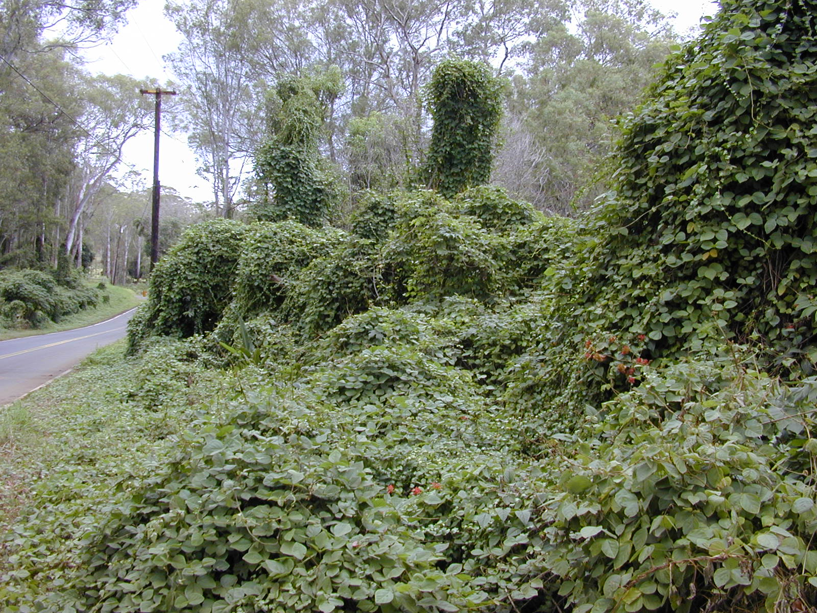 Neonotonia wightii (climbing in vegetation). Location: Maui, Uluapalakua